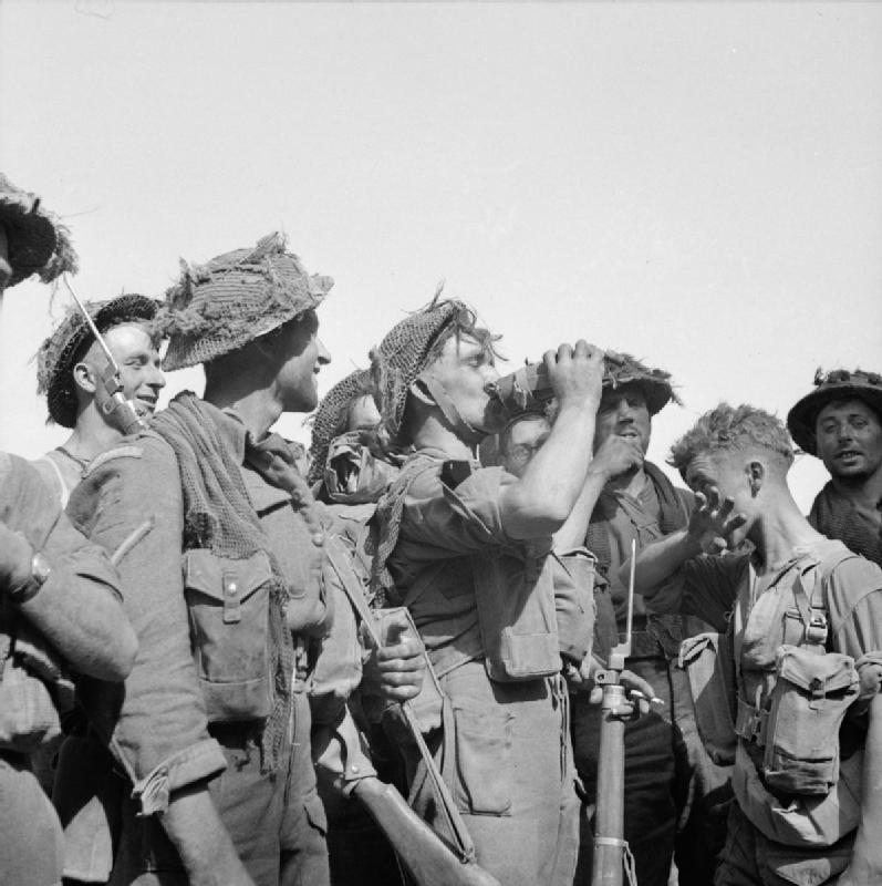 The British Army in the Normandy Campaign 1944 Sgt Clifford Brown of the Somerset Light Infantry quenches his thirst with other members of his platoon during the attack on Mont Pincon, 7 August 1944.